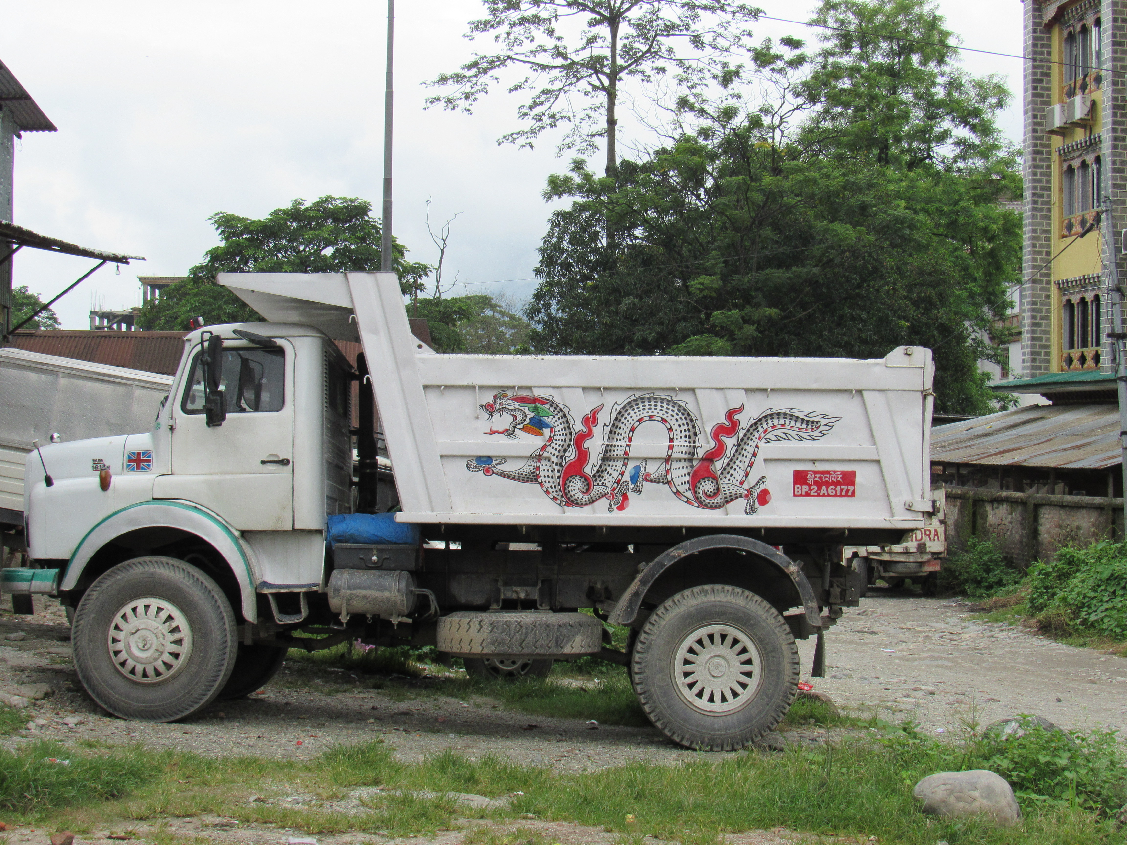 Dragon painting side of pick up truck